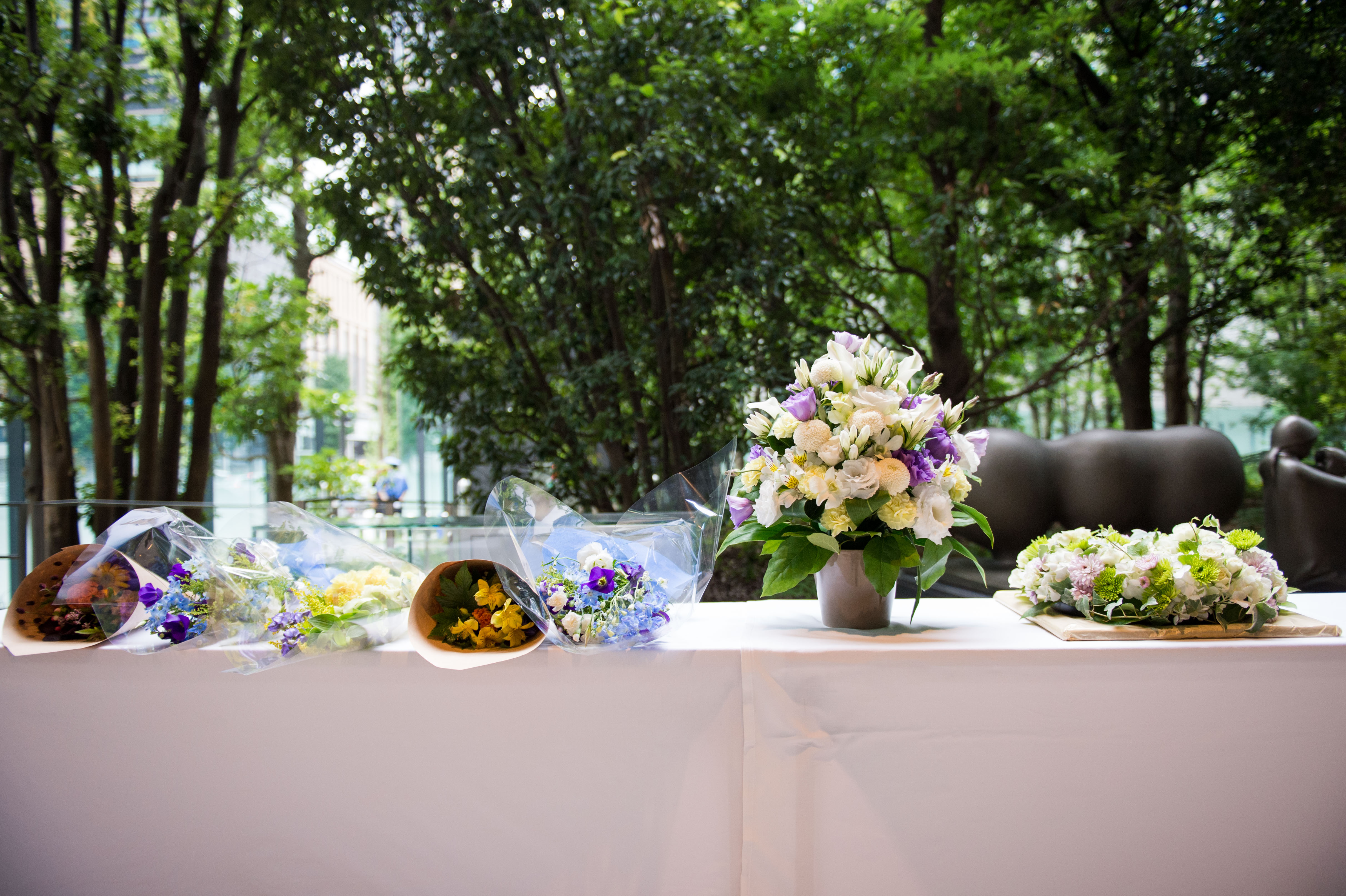 Japanese people laid flowers for the victims of the September 11 attacks in front of the memorial at the Ōtemachi no Mori, Otemachi Tower in Chiyoda Ward, Tōkyō Metropolis on September 10, 2014.